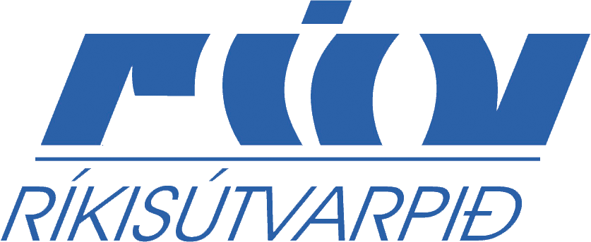 Logo of RÚV